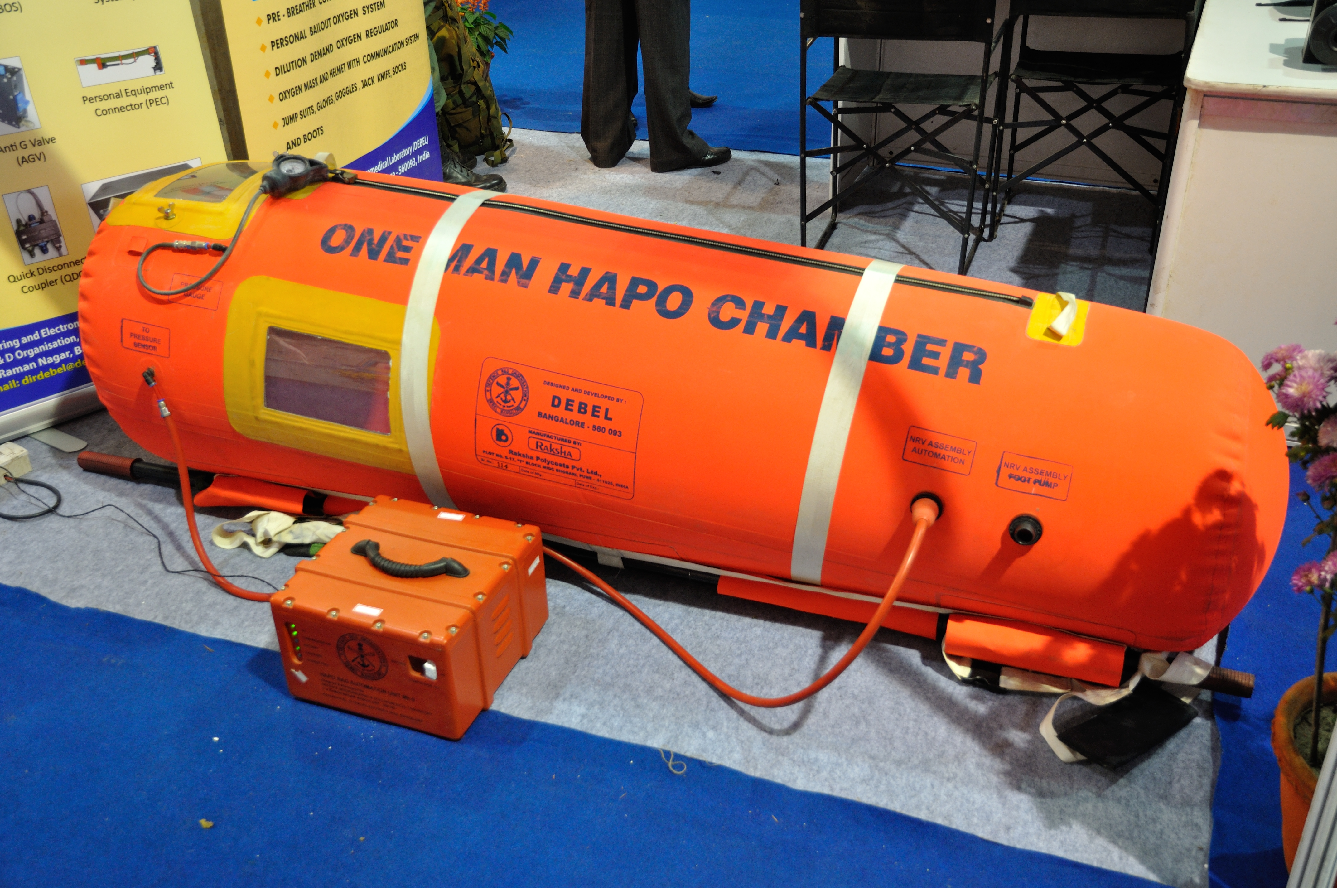 It is made by the 'Defence Research and Development Organisation', India or DRDO, shown at the 'Pride of India' exhibition, organised by the 'Indian Science Congress Association' on the occasion of the '100th Indian Science Congress' in Kolkata from 3rd to 7th january, 2013.